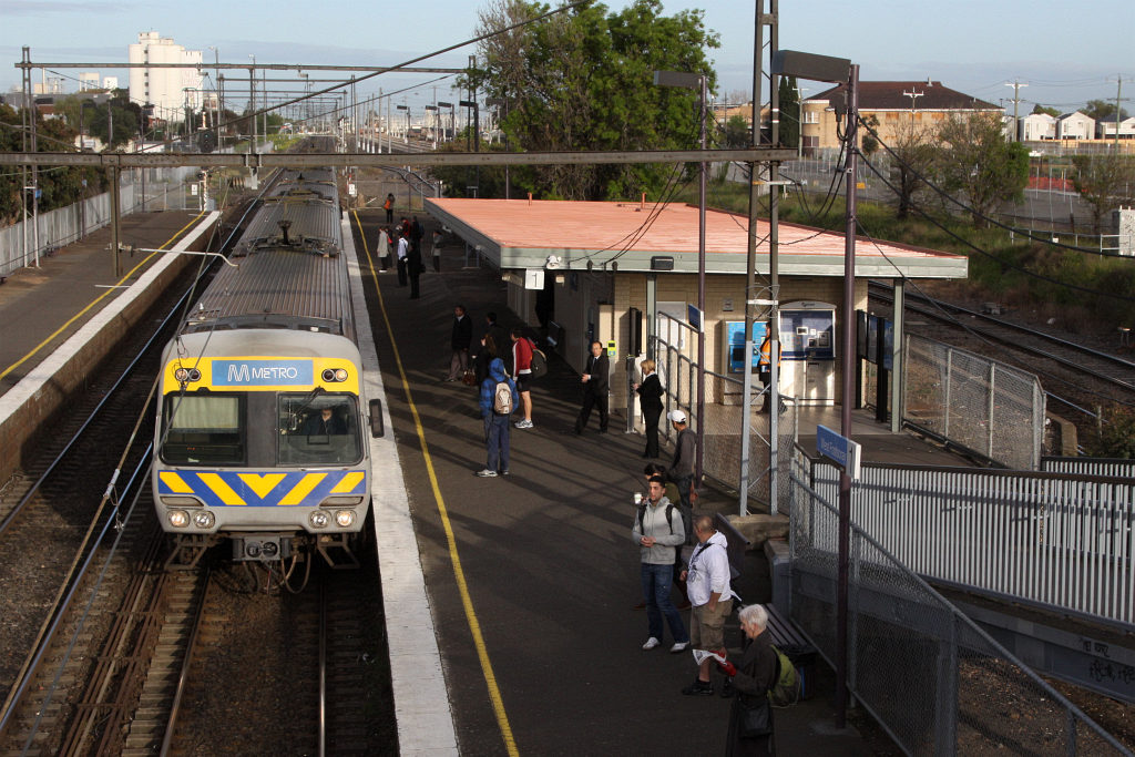 Citybound Comeng (train) arrives into West Footscray railway station. Viewed from the footbrdige at the city end, pPlatform 1 to the left, platform 2 to the right.